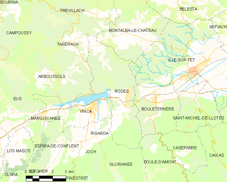 Map of French municipality